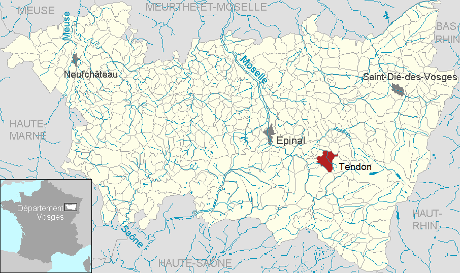 Tendon in the department of Vosges, Lorraine, France